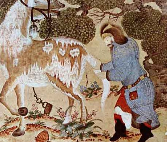 Horse and its owner by Ebdulbaqi Bakuvi